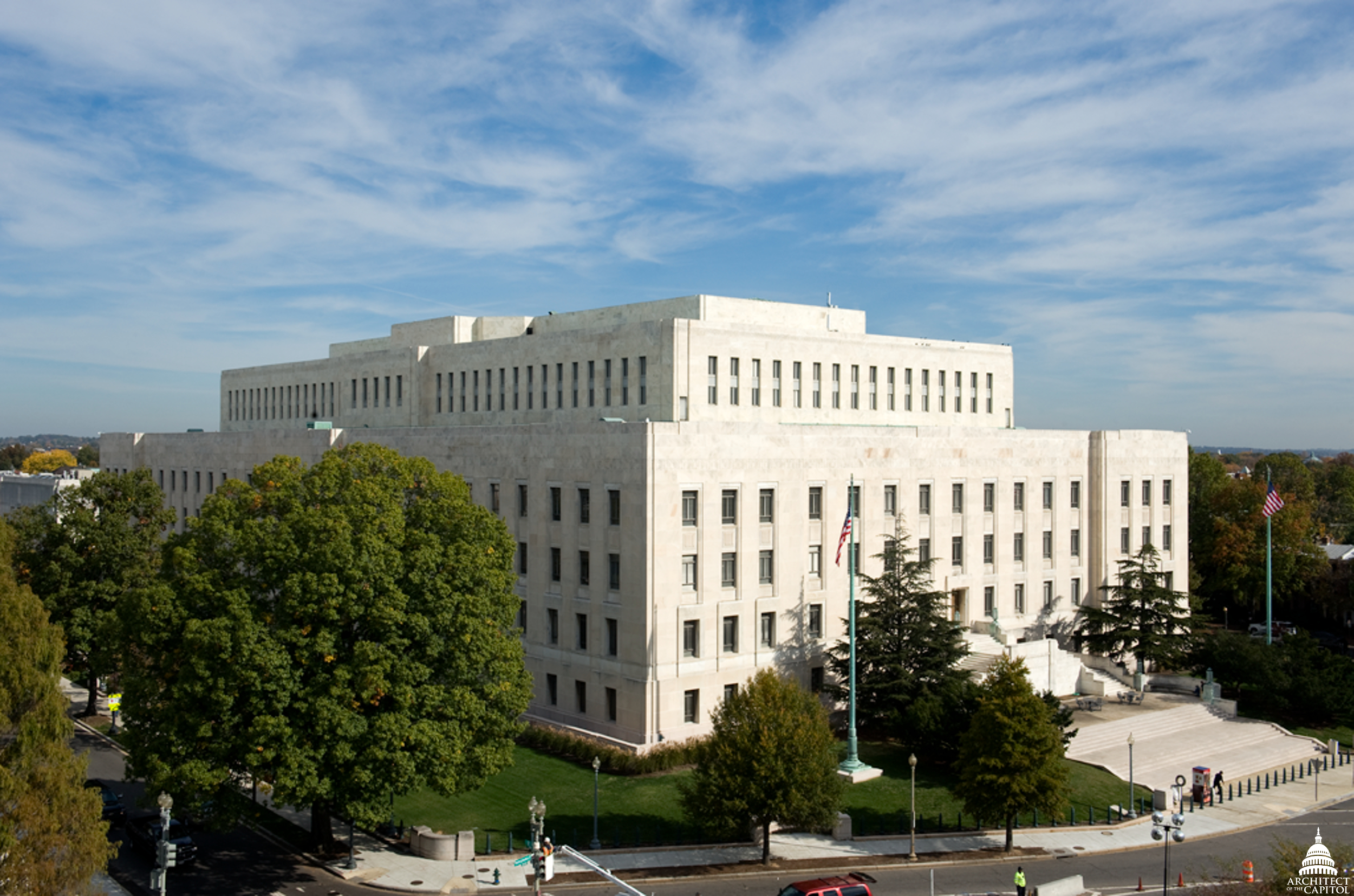 The second building constructed for the Library of Congress opened in 1939. For years it was known simply as "The Annex" before being named for President John Adams.